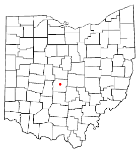 Columbus, Ohio.